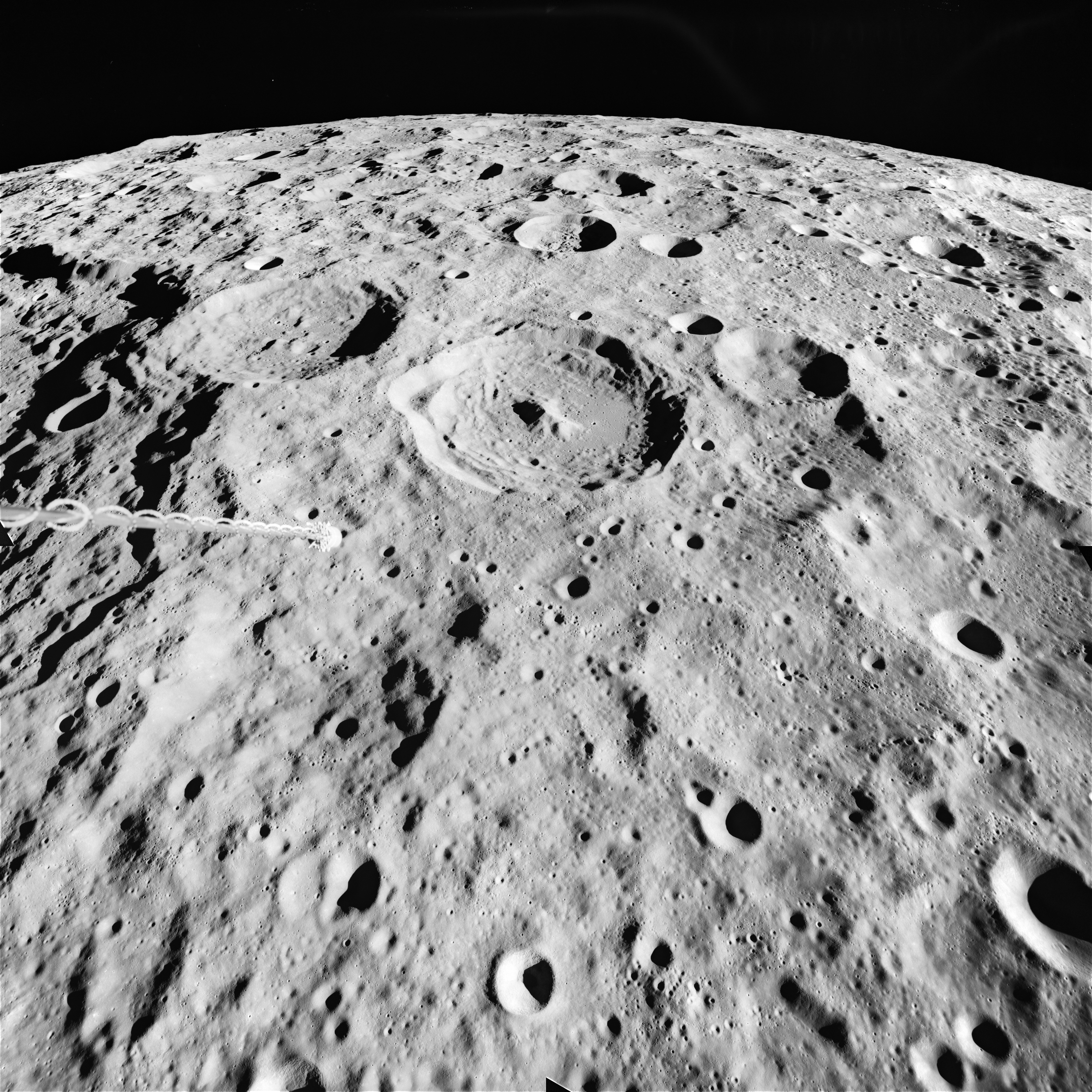 Highland area on lunar farside, view to the south. The biggest clearly visible crater (with central peak) is Green (68 km in diameter), it's upper left neighbour is Hartmann. Part of large crater Mendeleev is seen on the left. Photo by Apollo 16 (23 April 1972).